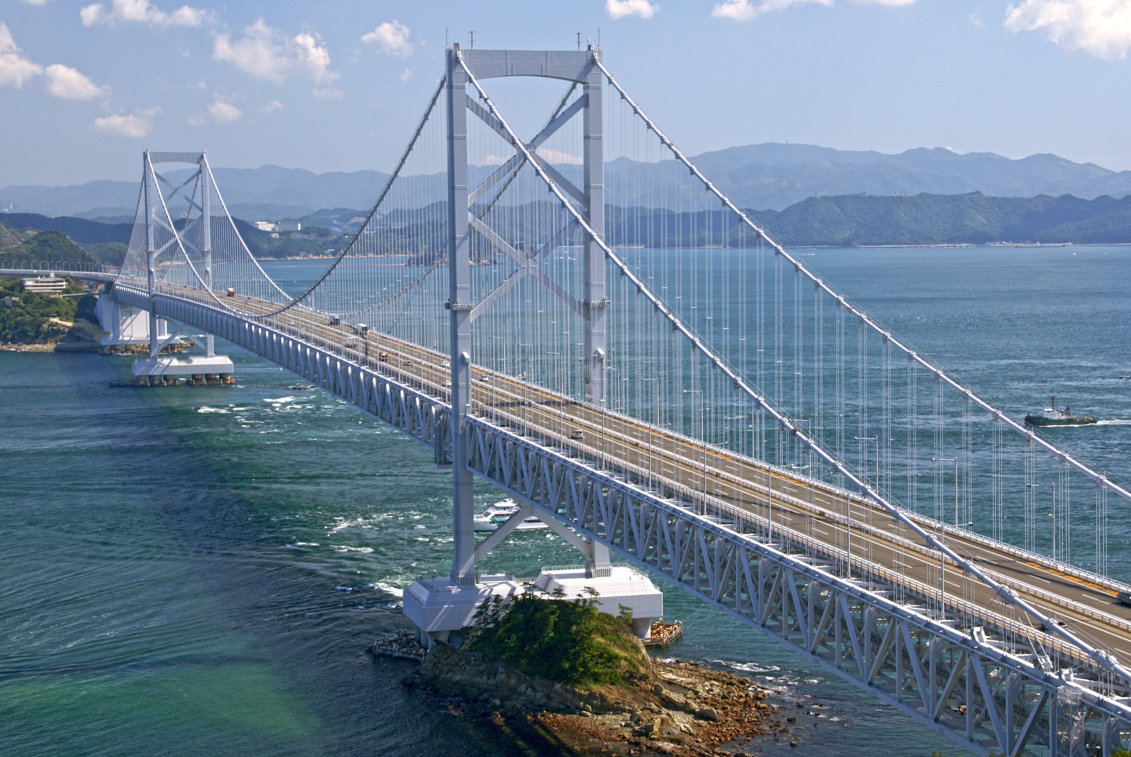 Ōnaruto Bridge at Naruto, Tokushima prefecture, Japan